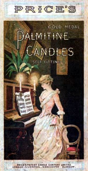 Advert for Price's Palmitine Candles which were an improvement on the stearine candle by "using a composite of refined tallow and coconut oil with the result that these ‘composition’ candles, which were hard and pure white, produced a bright flame without smell or smoke and furthermore were ‘snuffless’."